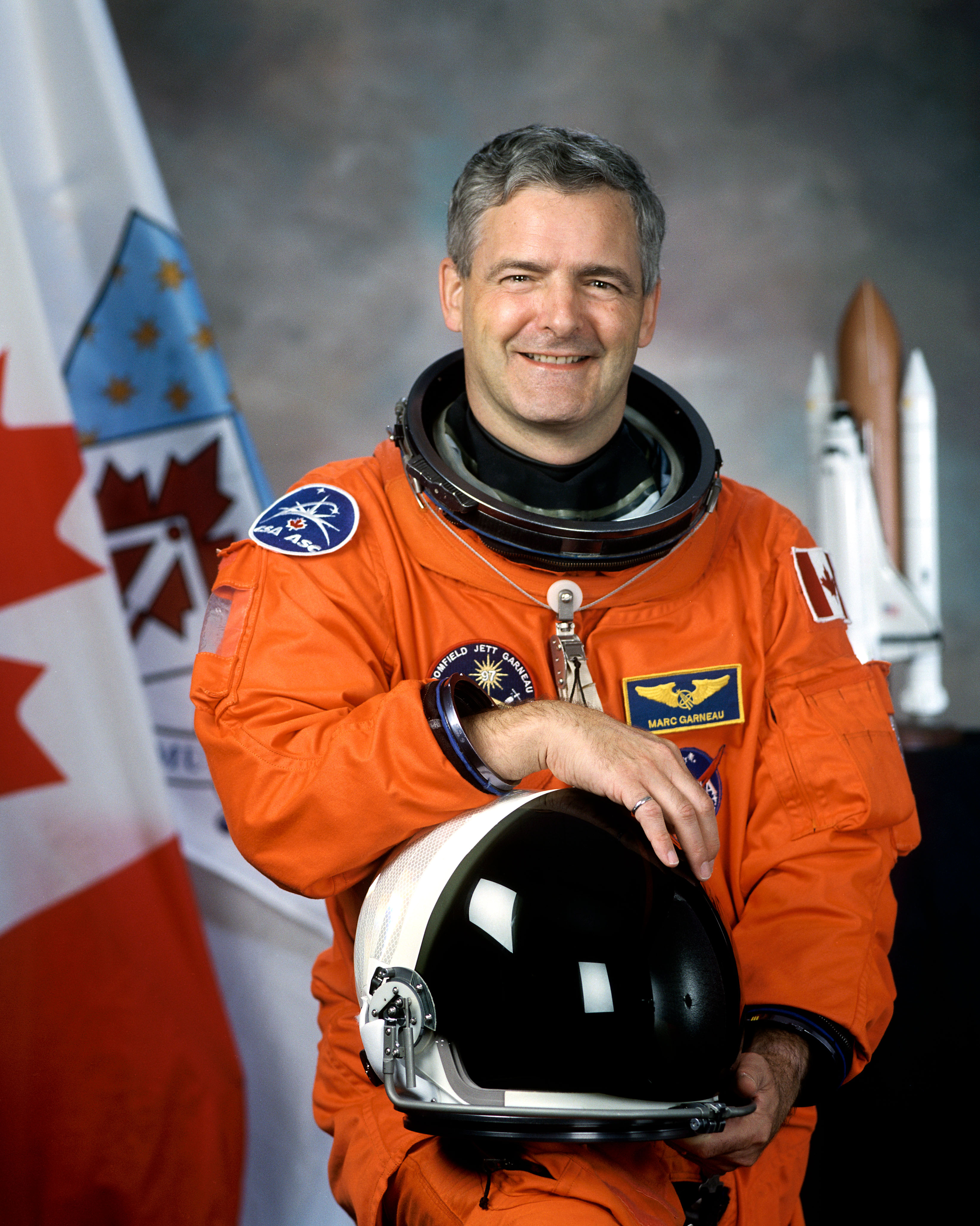 Astronaut Marc Garneau, Canadian Space Agency mission specialist. He has flown on STS-41-G, STS-77, and STS-97.